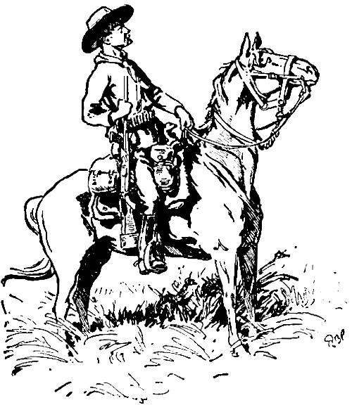 Robert Baden-Powell's Sketch of the Chief of Scouts Frederick Russell Burnham, Matopos Hills, Rhodesia, 1896.